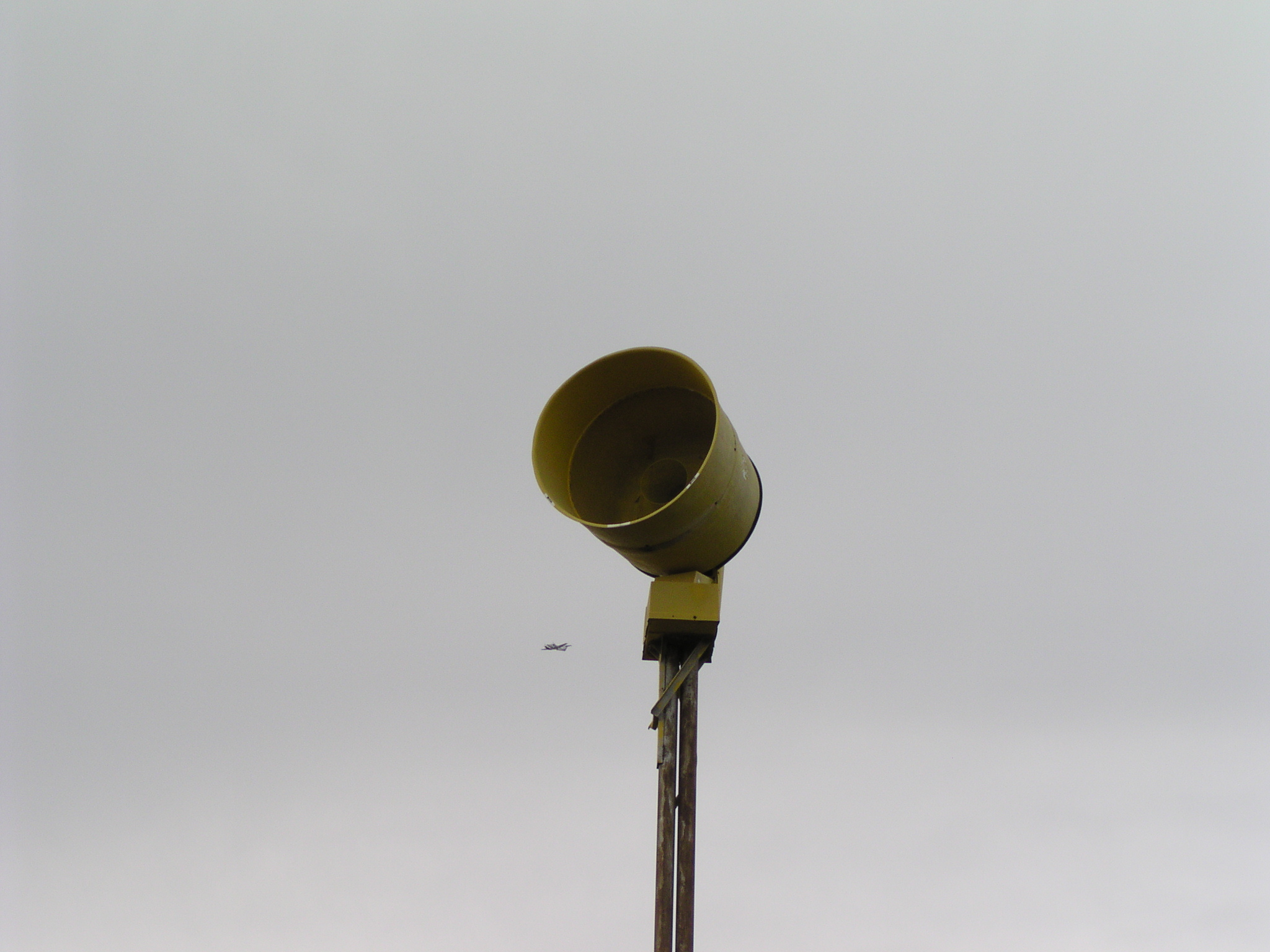 A Pole Mounted ACA P-50 is The colony TX This siren in HUGE!!!!! Credits Brent Bwillcox